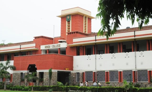 The picture is taken of the main building from the Chemistry Lawns.